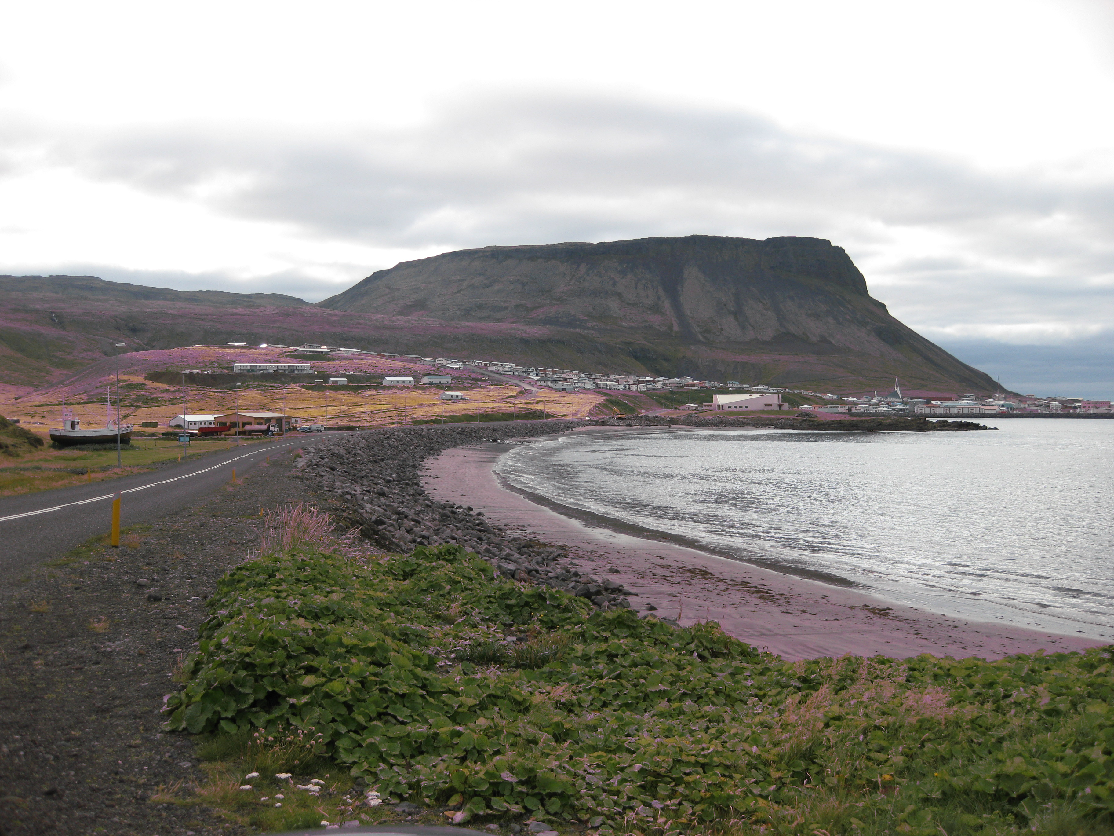 Mountain Ólafsvíkurenni to the west of the fishing town Ólafsvík in Snæfellsnes , Iceland. Photo by Salvor Gissurardottir in August 2008